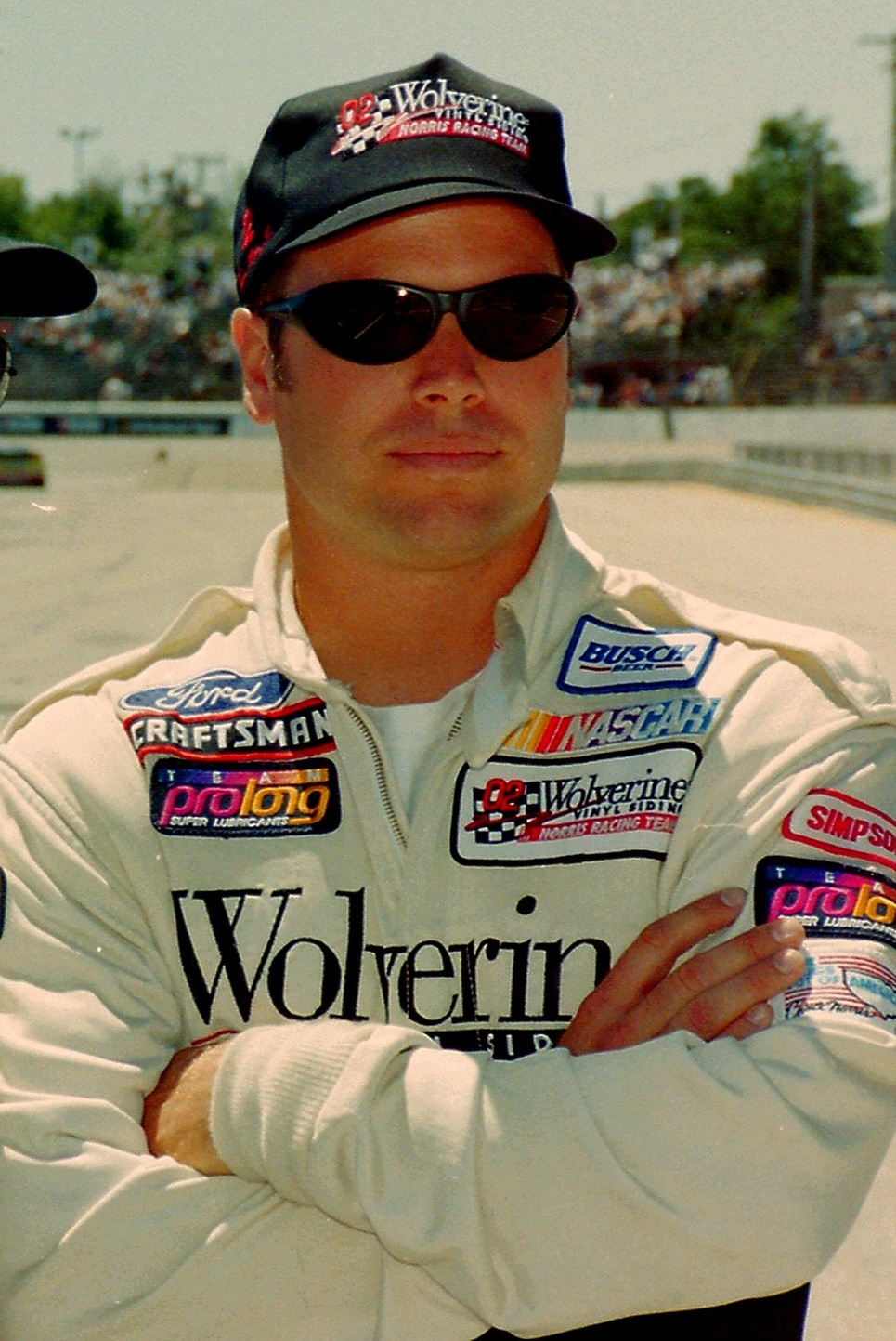 Eric Norris at the Sears DieHard 200 at The Milwaukee Mile, July 5, 1997. (Original photo includes father Chuck)